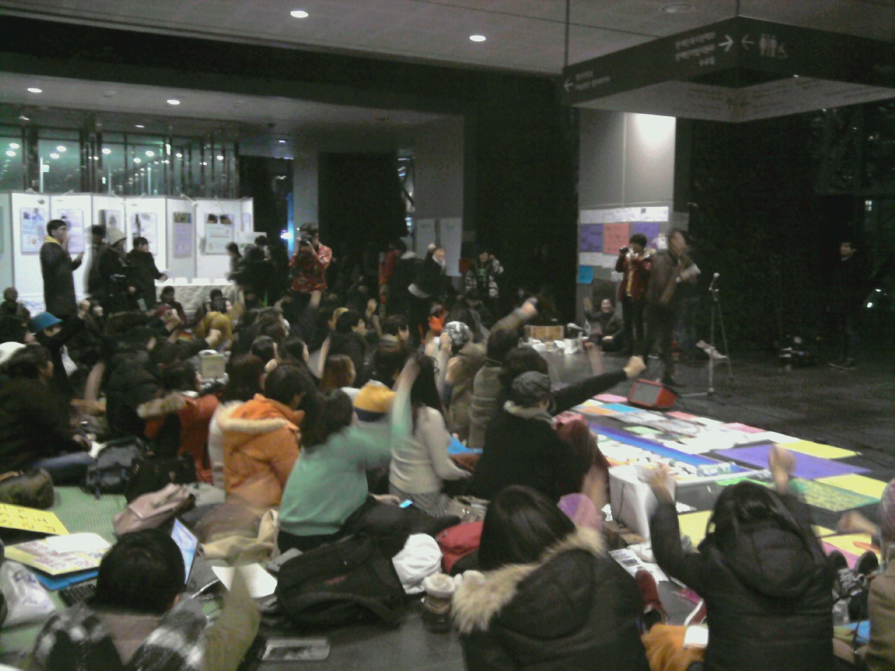 LGBT protestors and their supporters are occupying and sitting in Seoul City Hall building 1st floor. They are blaming mayor Park Won-soon for disusing city charter of rights including sex orientation and gender identity and demanding to reutilize charter. Mayor Park had visited conservative protestant pastors' organization and speaked his mind that he "should protect rights of transsexuals but do not support homosexuality."